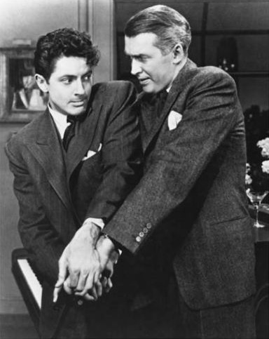 Farley Granger & James Stewart in American psychological crime thriller film Rope (1948). See also film still. No copyright notice.